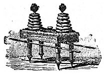 the Table of Shewbread of the Biblical Tabernacle